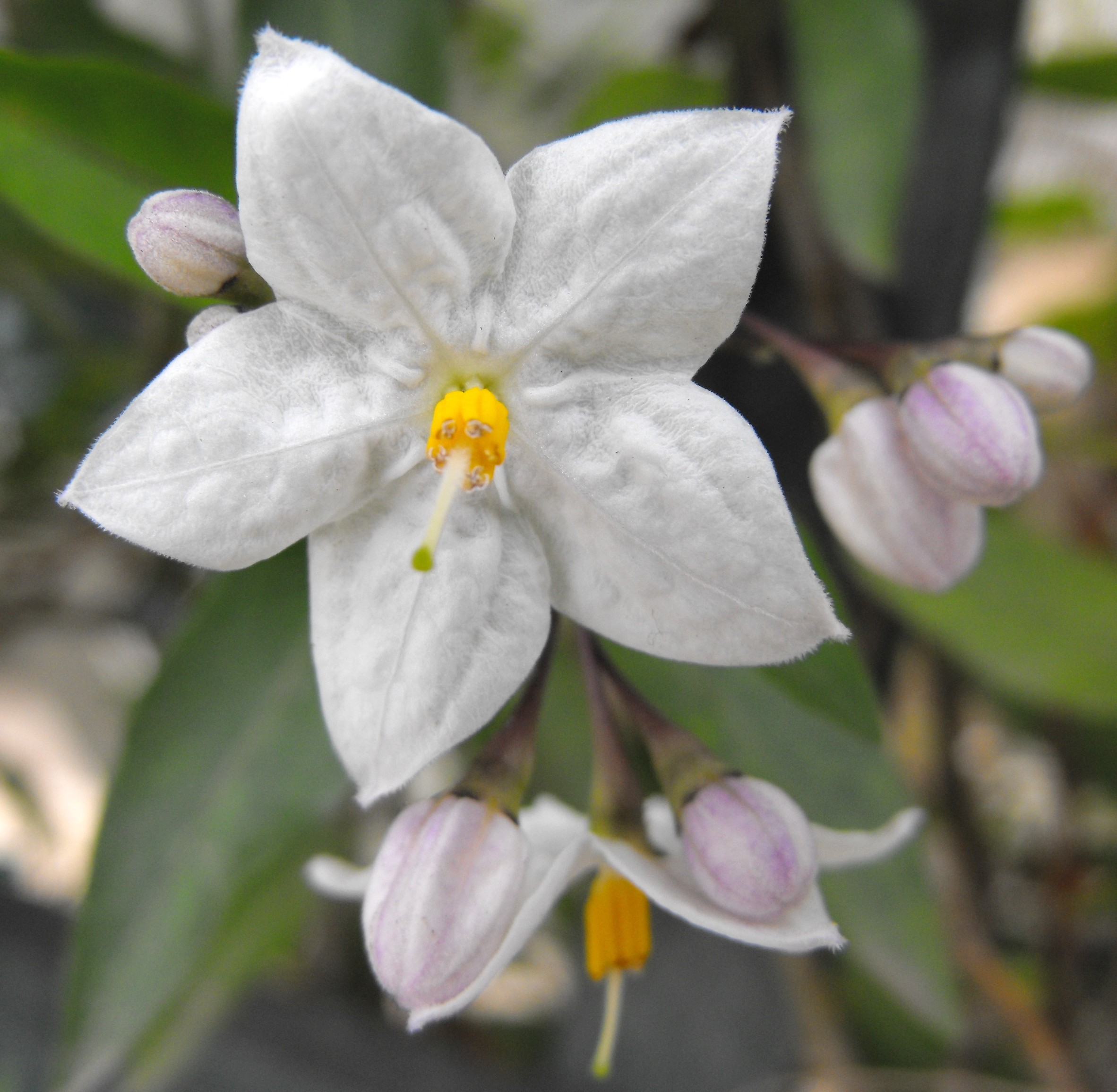 Solanum jasminoides syn. Solanum laxum on display at the San Diego County Fair, California, USA. Identified by exhibitor's sign.